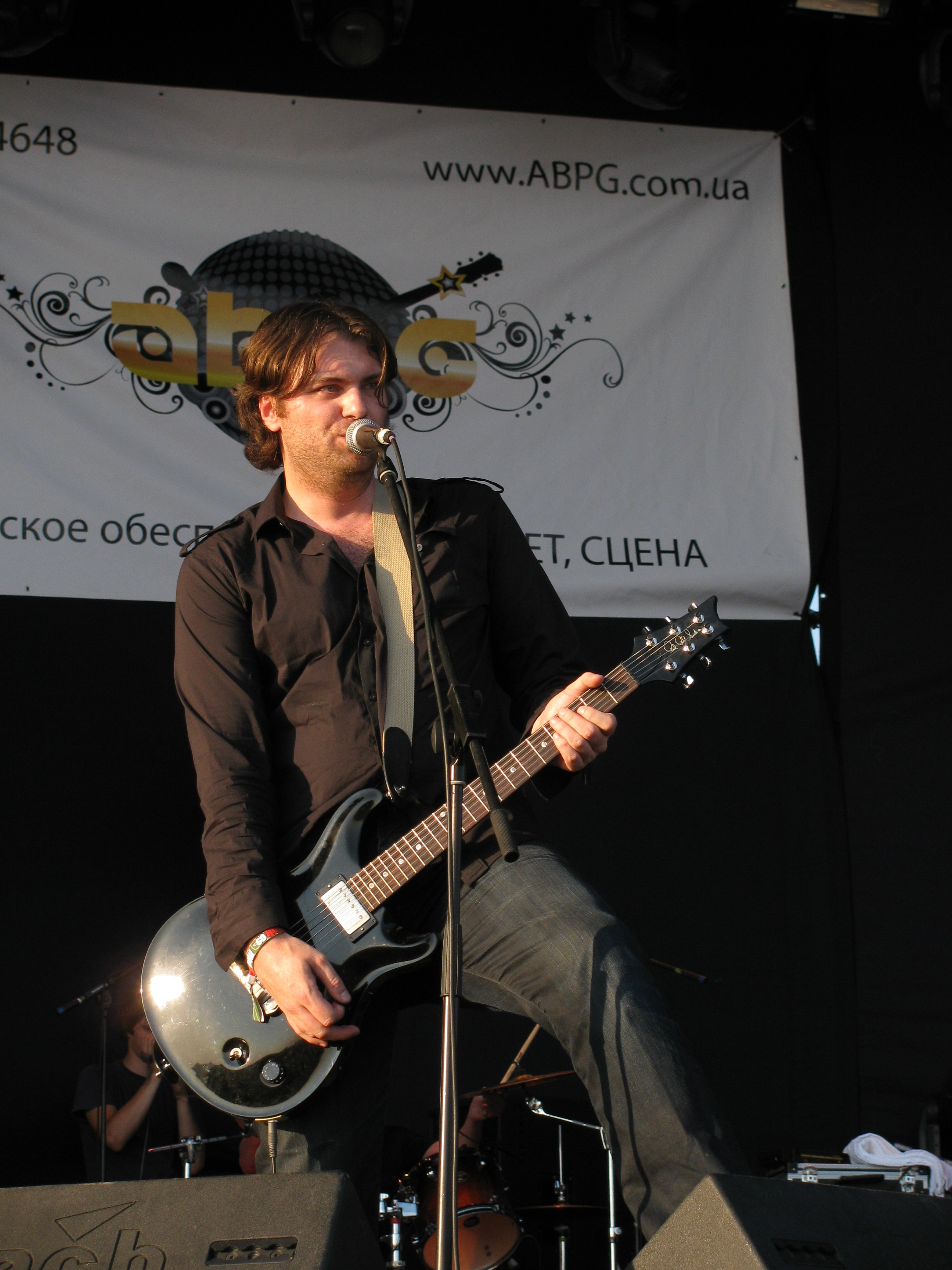 Daniel Brennare (Lake of Tears) on ProRock festival, Ukraine.